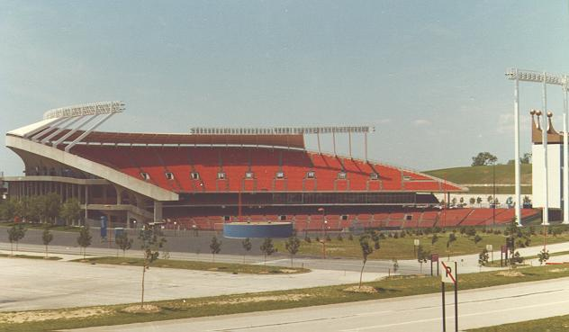 I took this photo of the then-Royals Stadium on or about May 14, 1981. 05:01, 31 July 2005 . . Wahkeenah . .632 x 369 (32,789 bytes)